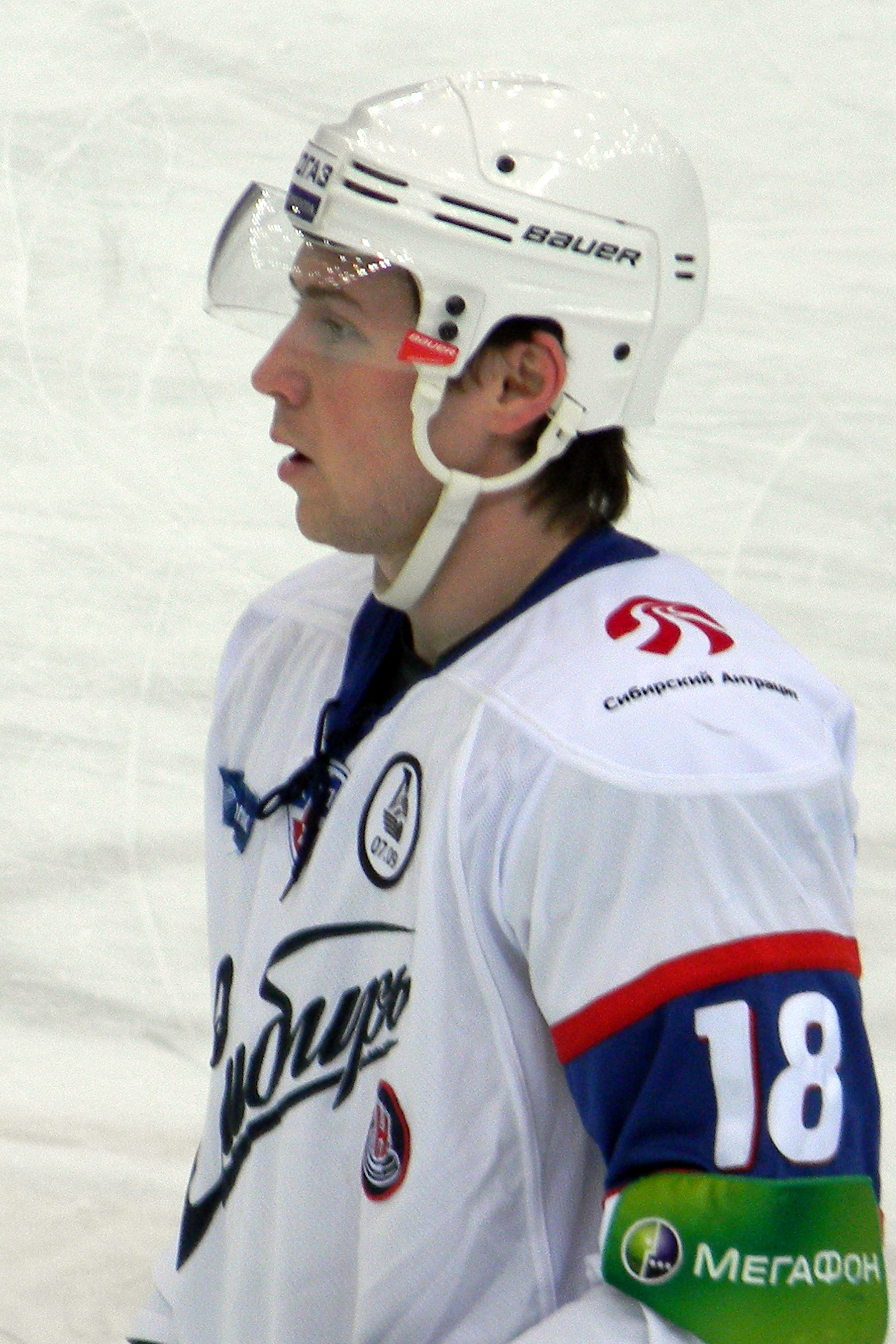 Yuri Petrov, an ice-hockey player from HC Sibir Novosibirsk